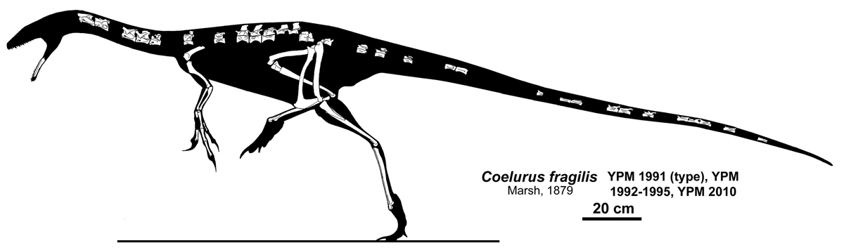 Skeletal reconstruction of Coelurus fragilis.